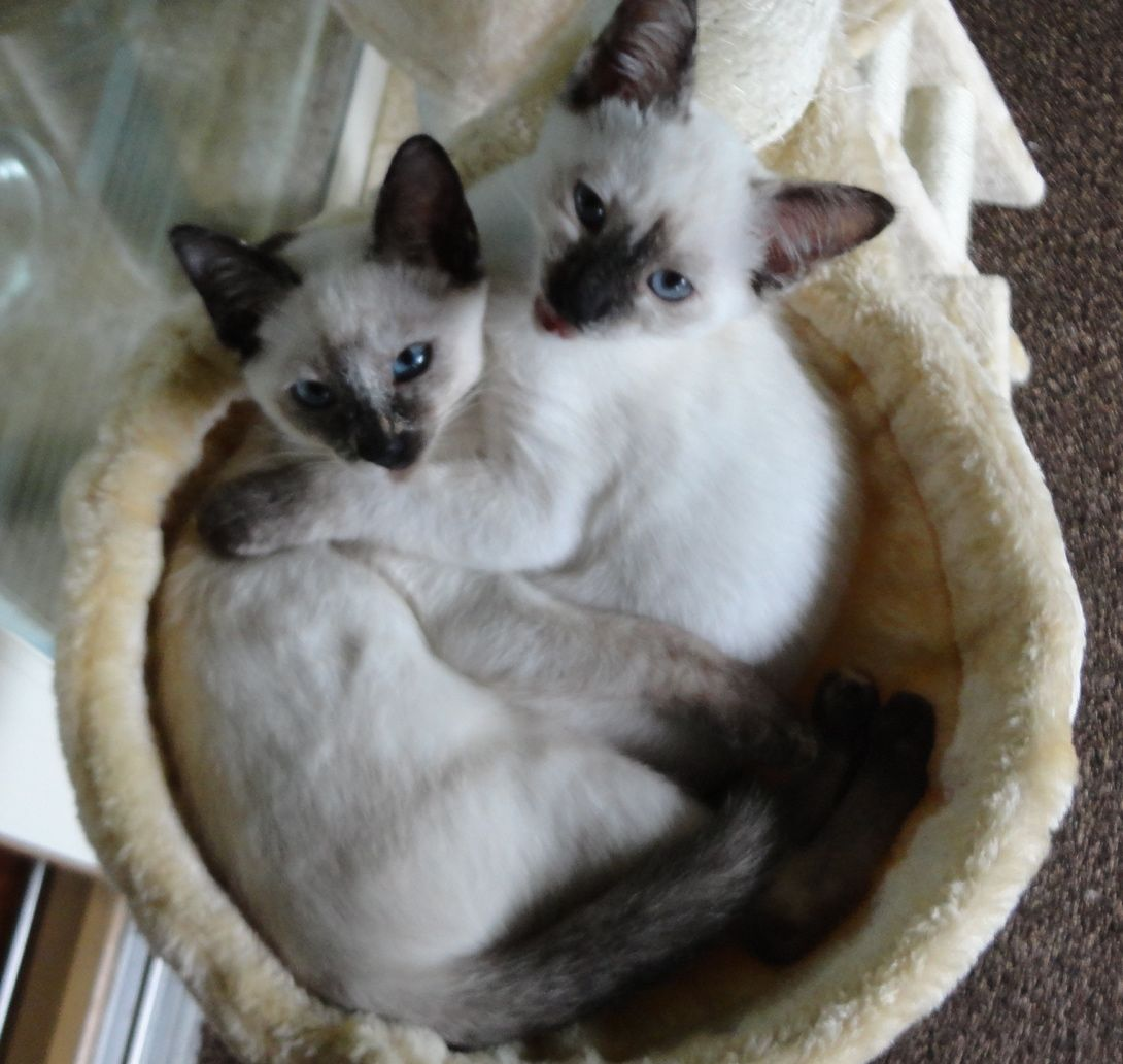 Bella and Donna get ready for a nap.